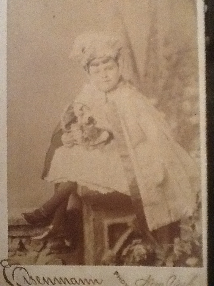 Cabinet card